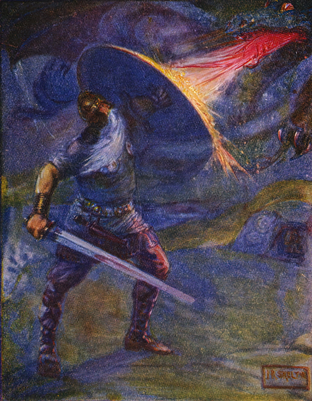 An illustration of Beowulf fighting the dragon that appears at the end of the epic poem.